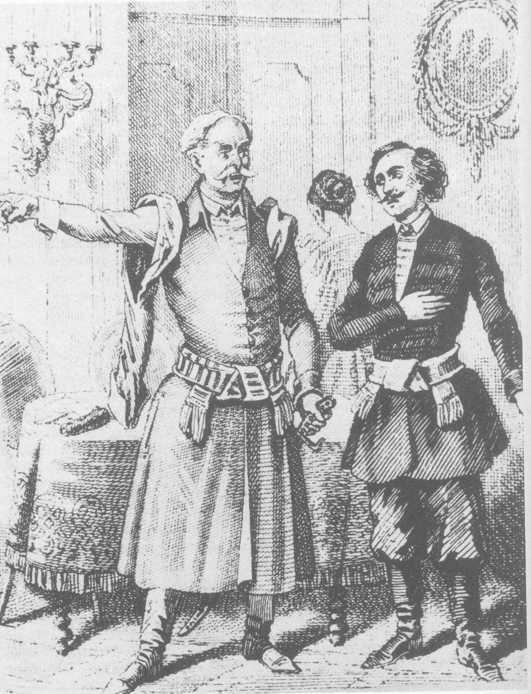 Scene from Act I of S. Moniuszko's "Hrabina". Etching by J. N. Lewicki, 1860